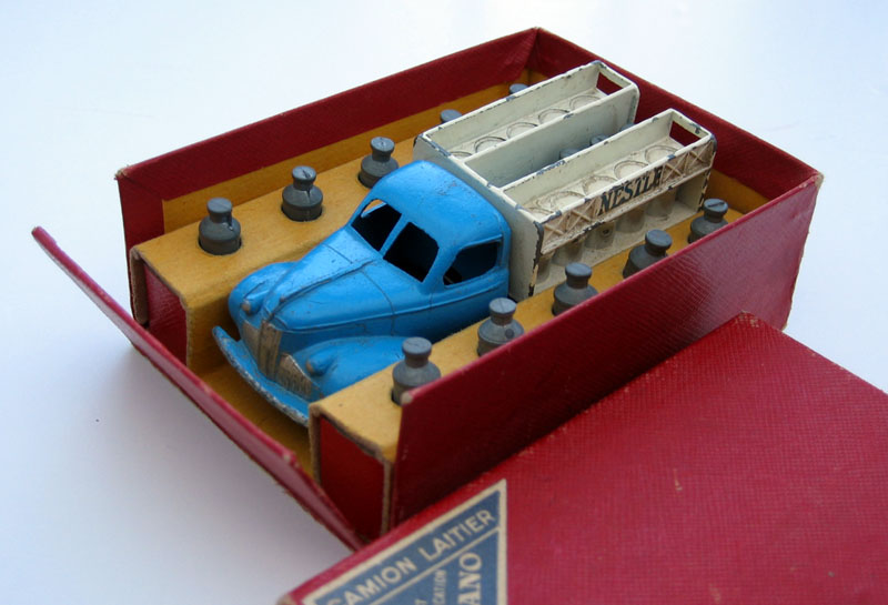 Dinky Toy model made in France - 1955